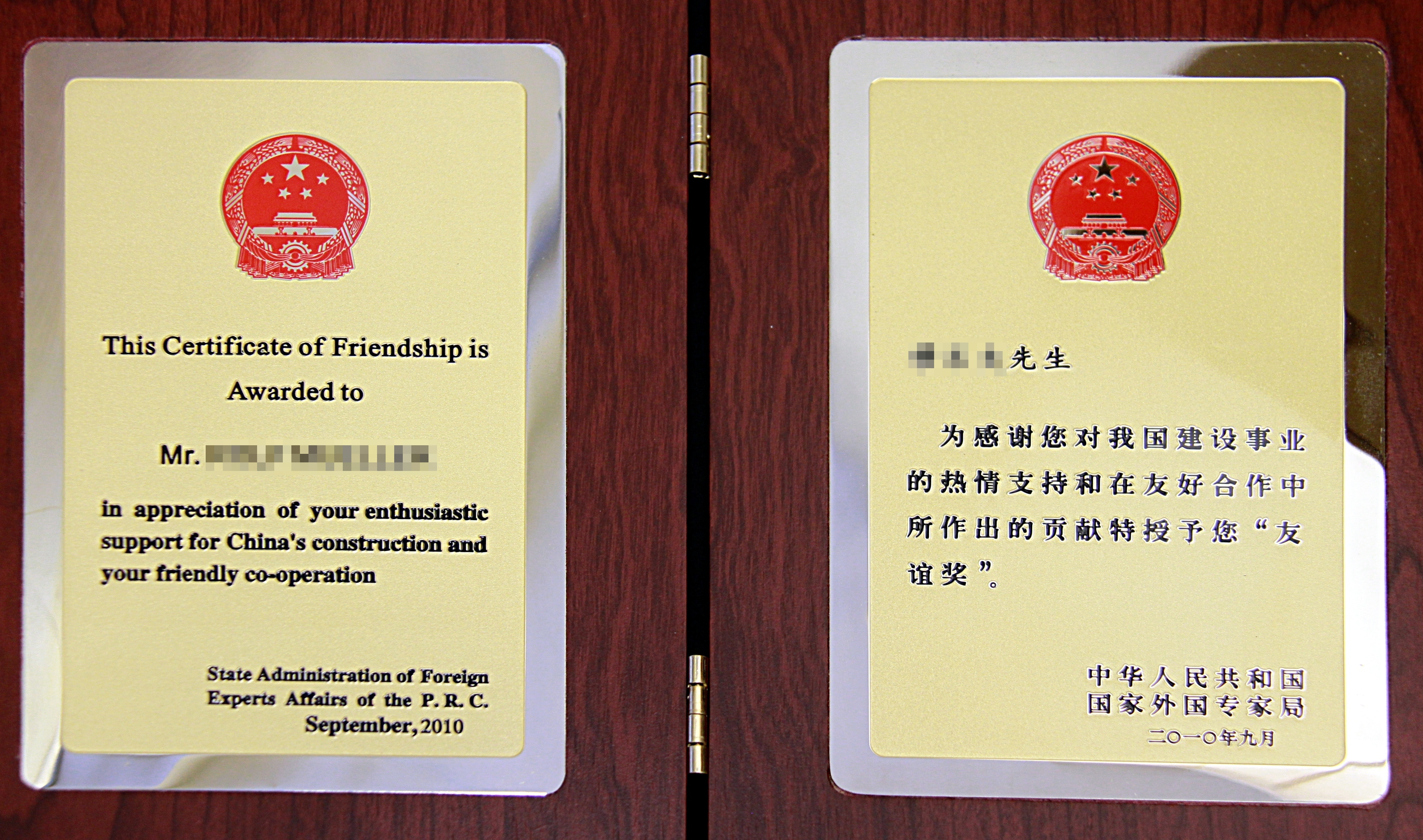 Photograph of the medal of the Friendship Award of the People's Republic of China.